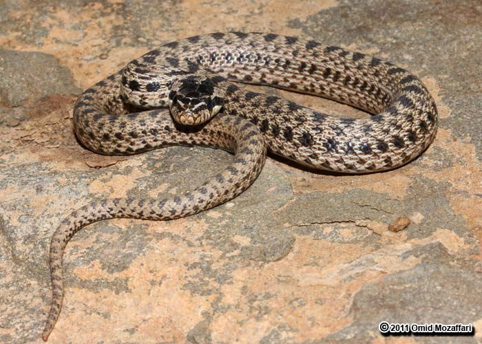 Elaphe sauromates